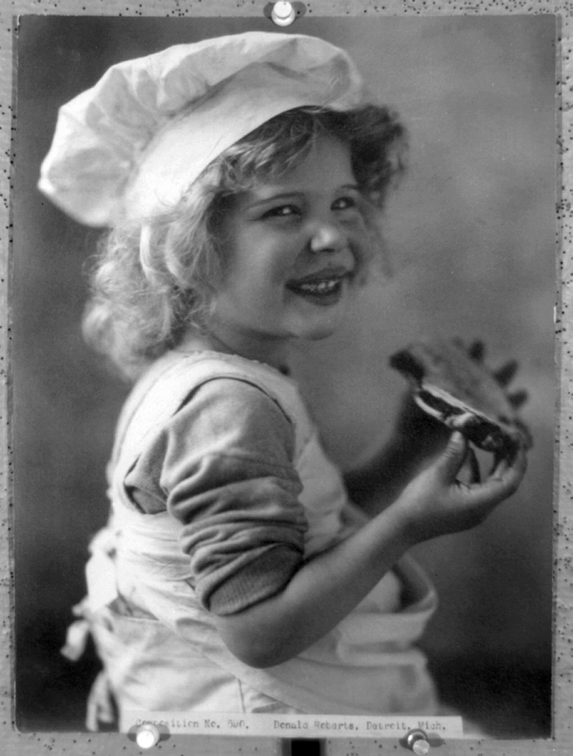 Girl with a smile, wearing baker's hat and apron, and eating pie; 1/2 length, facing right.